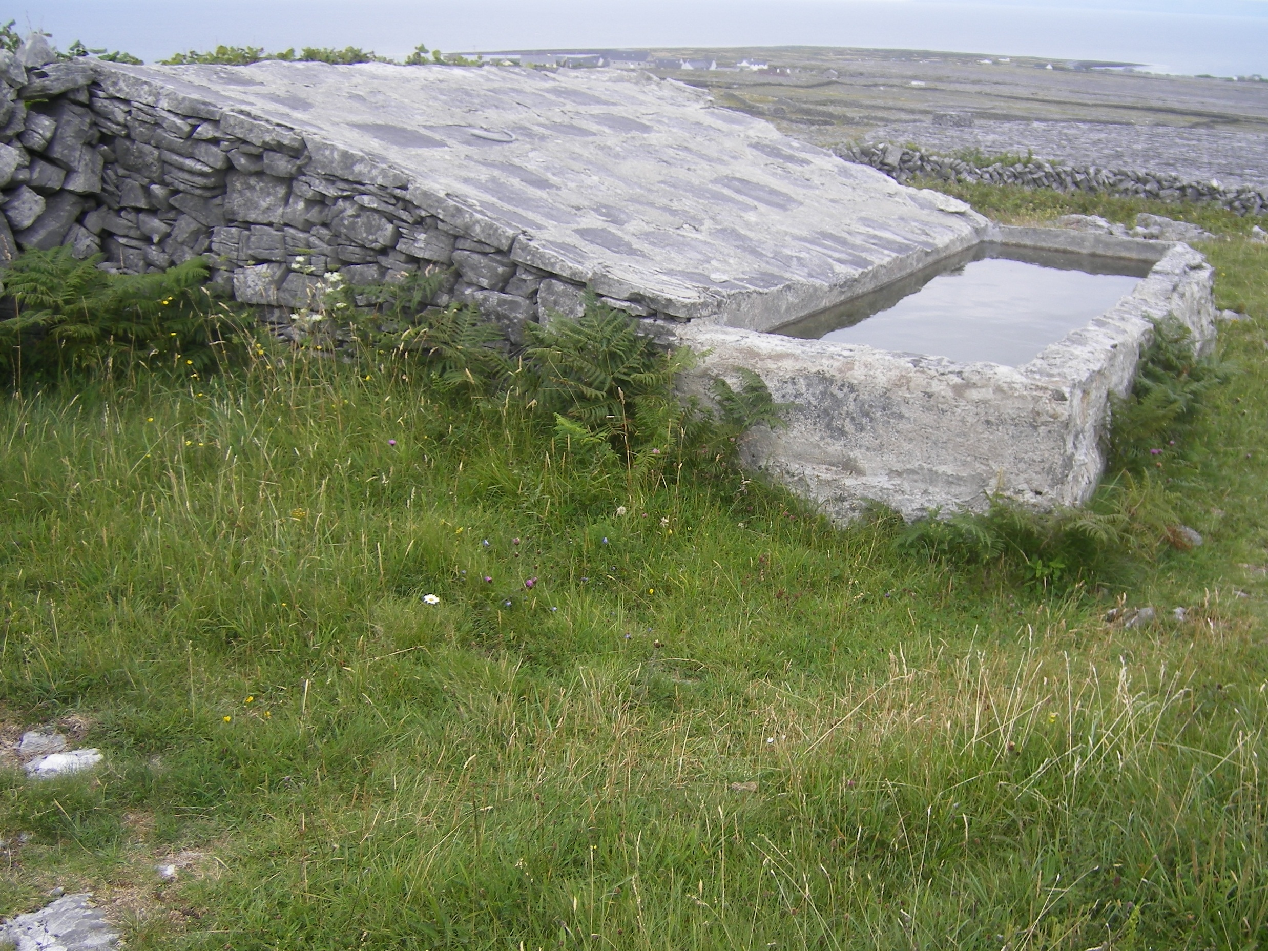 Inishmore